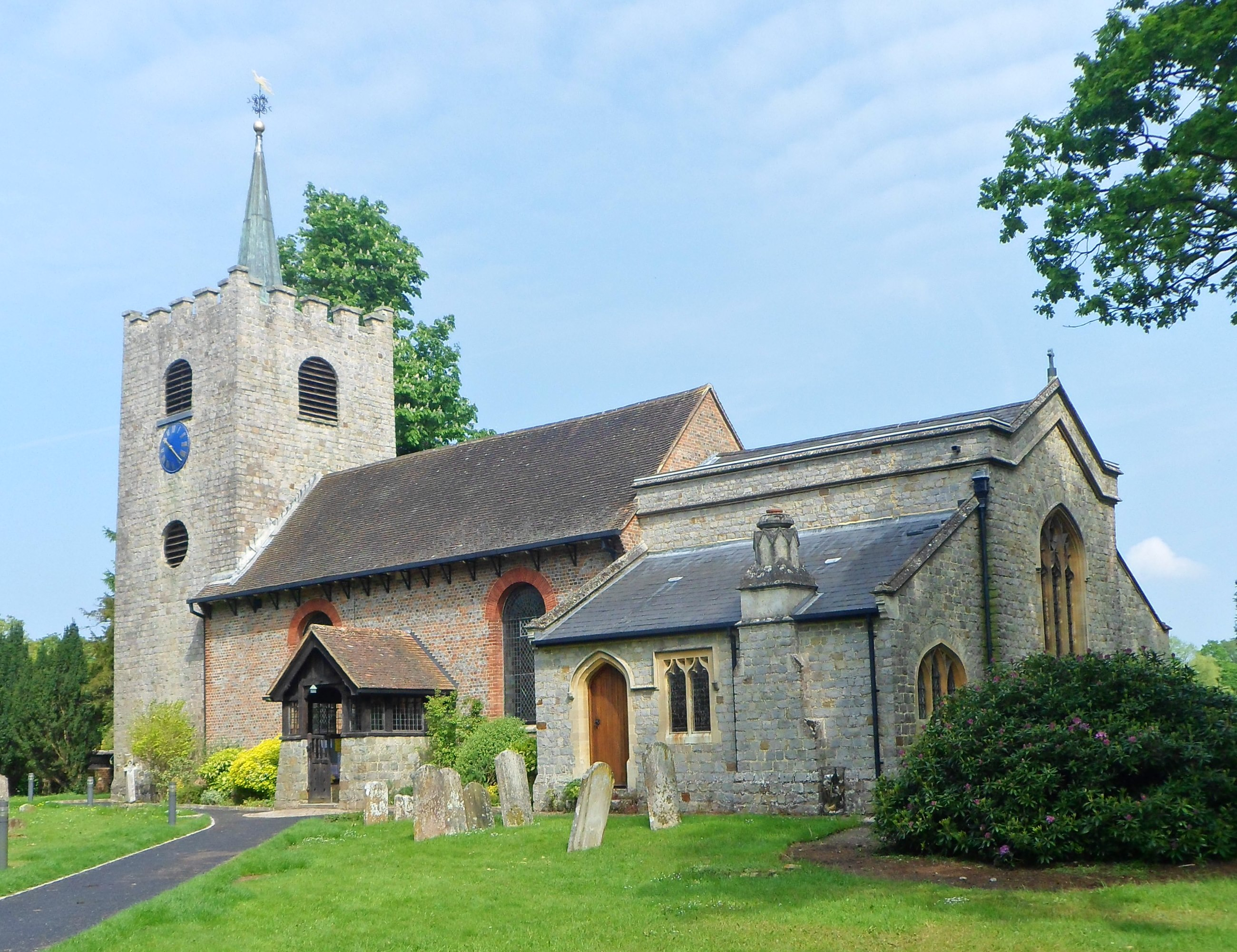 St Michael and All Angels Church, Church Lane, Pirbright, Borough of Guildford, Surrey, England.